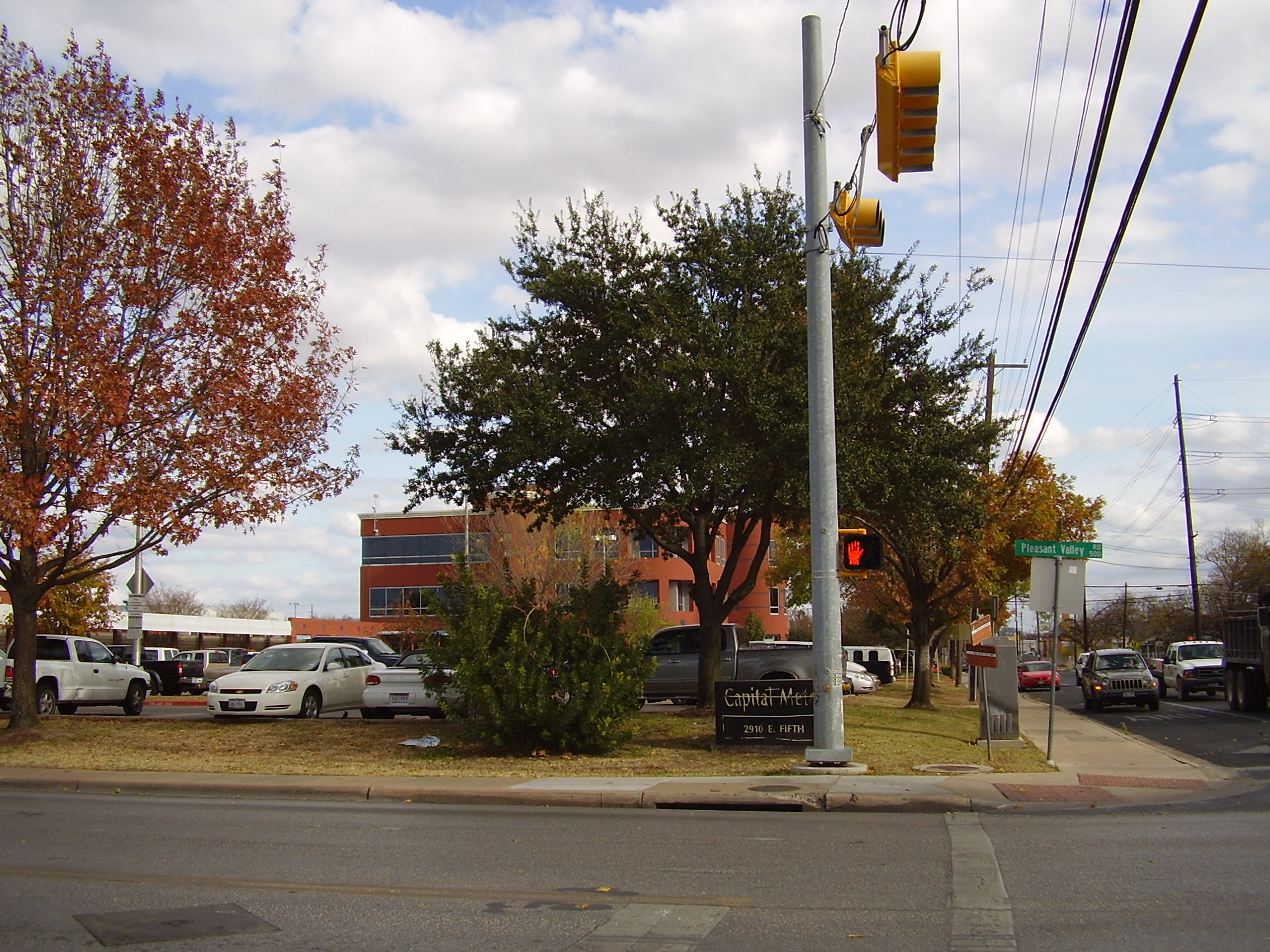 Capital Metro Headquarters